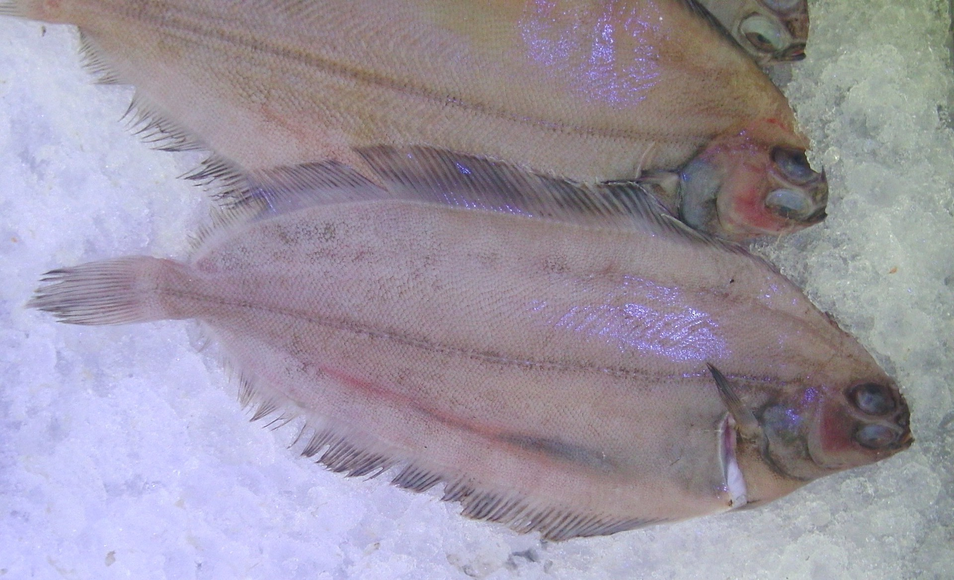 A flatfish, probably a witch flounder (Glyptocephalus cynoglossus), also called Torbay sole, gray flounder or only witch